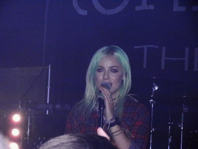 Jenna McDougall performing at The Haunt, Brighton, on 4 October 2013.